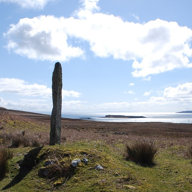 Camas an Staca. Camas an Staca, alternatively Camas an Stacca, is a prominent standing stone above the Sound of Islay about 200m south of the road from Feolin to Craighouse. It is sign-posted from the road and a gate opposite a passing place gives easy access to the area. Camas an Staca means "bay of the stones". The stone is about 12 feet tall and is a thin slab of rock aligned towards the south-east. Some reports describe it as the remains of a stone circle, but there is no evidence of that on the ground. The view from the stone across the Sound of Islay to Islay itself is spectacular and there are distant views to the Mull of Kintyre to the south-east. Additional views of the stone are at 764802 764805 764809